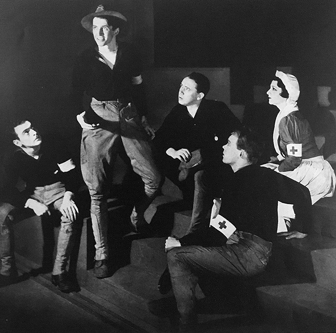 Left to right: Samuel Levene, James Stewart, Edward Acuff, Katherine Wilson & Myron McCormick in the 1934 Broadway play Yellow Jack. No copyright notice.